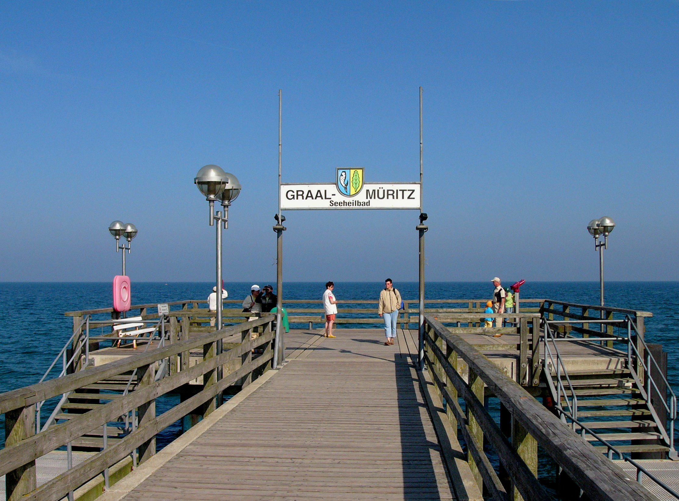 Graal-Müritz is a town on the German coast of the Baltic Sea in Mecklenburg-Vorpommern, Germany. View to the Pier.